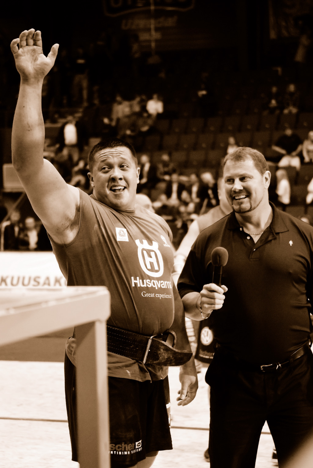 Mikhail Koklyaev from Russia (left) & Magnús Ver Magnússon, World's Strongest Man 1991, 1994, 1995, 1996 from Iceland (right) taken at the World Strongmen Team Competition 2007